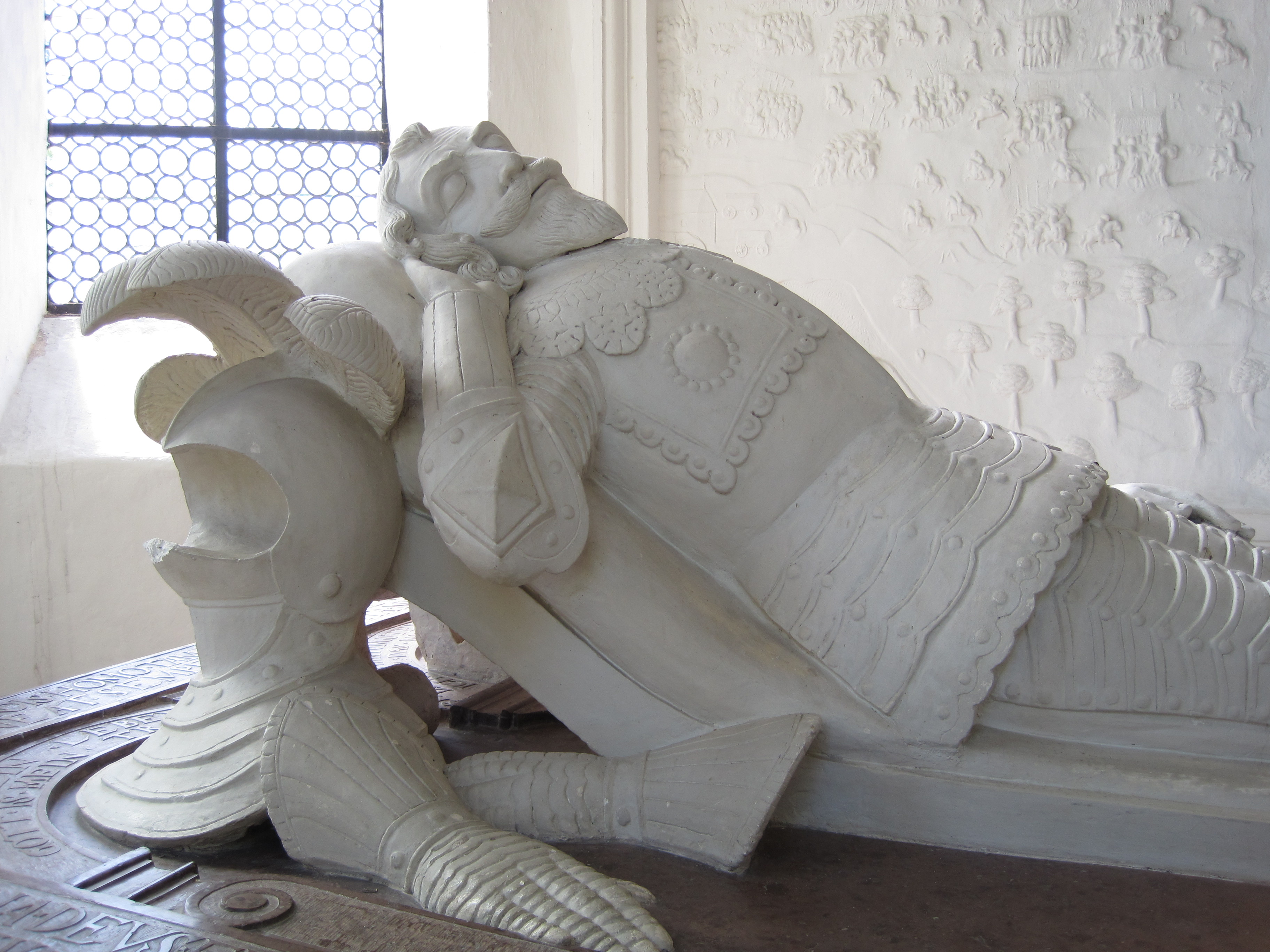 The tomb of Herman Wrangel (c. 1584-1643), Swedish field marshall ang governor of Livonia, in Skoklosters kyrka. The effigy designed by Daniel Anckermann c. 1650.